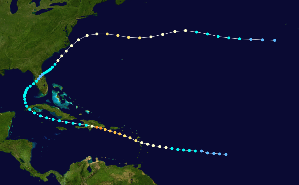 1930 Dominican Republic hurricane track. Uses the color scheme from the Saffir-Simpson Hurricane Scale.